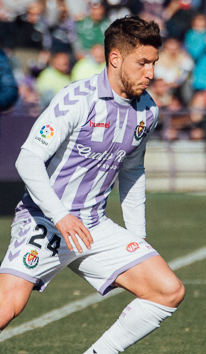 Real Valladolid - Rayo Vallecano, 18th fixture of the 2018-19 La Liga, January 5, 2019.